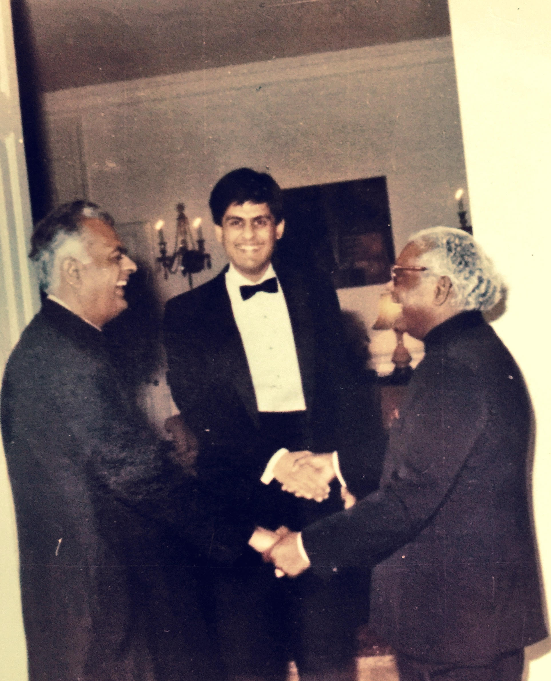 Ranjan Pant, with the former President of India - K R Narayanan & Govind Vallabh Pant